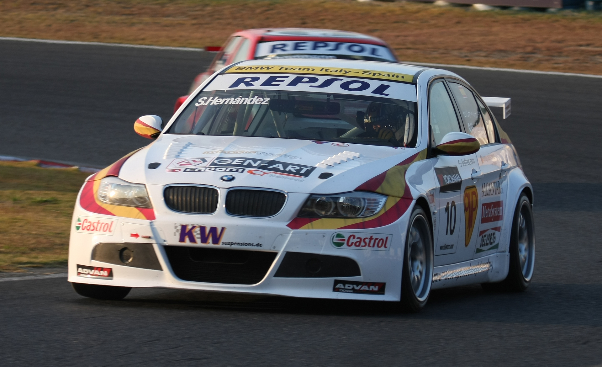 World Touring Car Championship 2009 Race of Japan: Sergio Hernández (BMW Team Italy-Spain) at free practice.